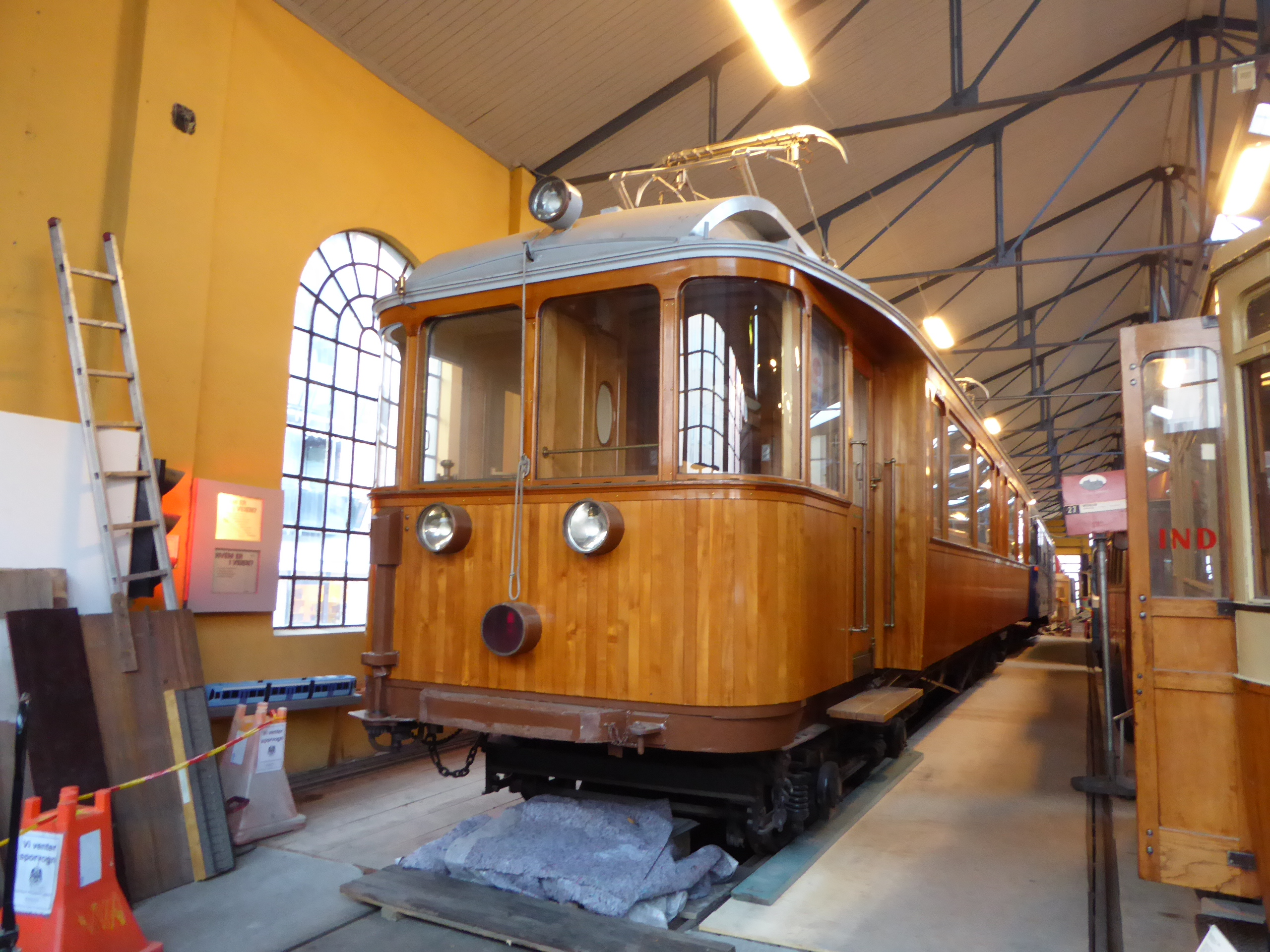 Tunnelbane car HKB 42 of Holmenkolbanen from 1917 at Sporveismuseet in Oslo.